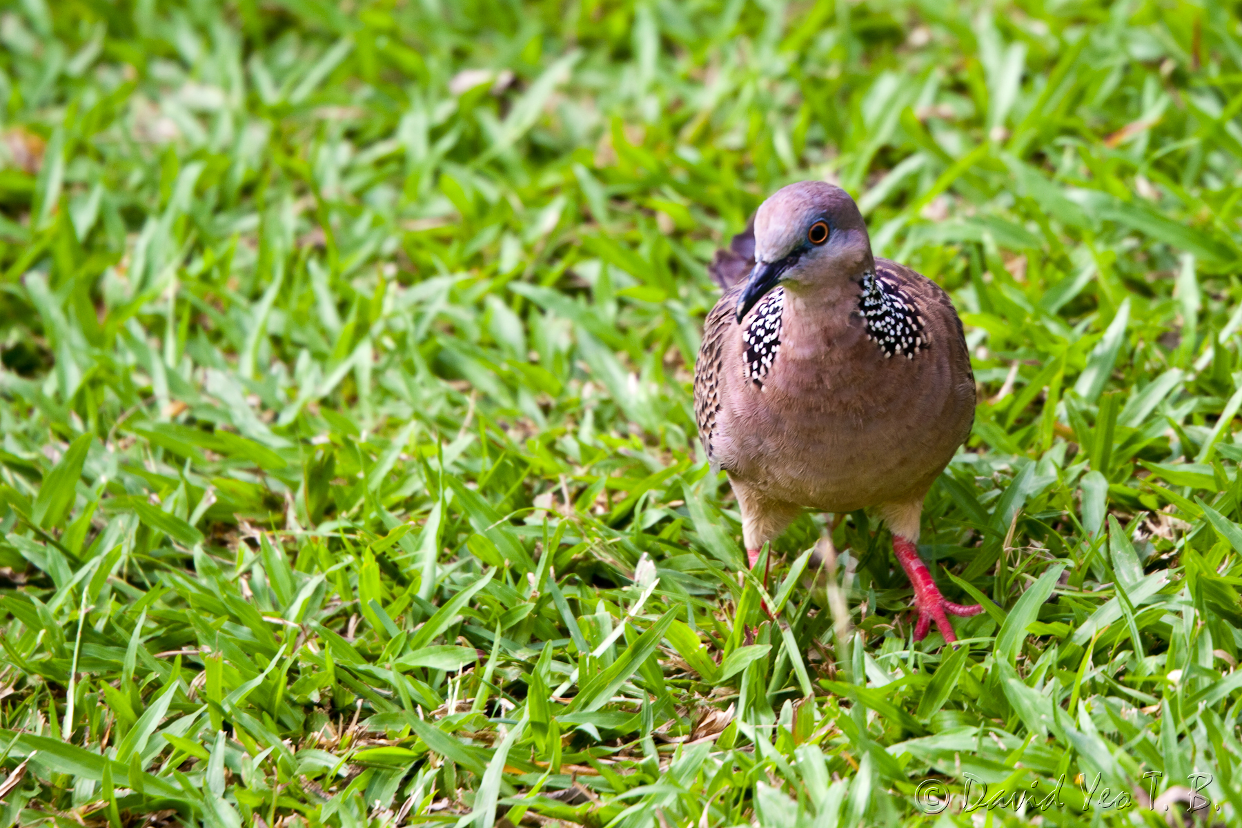 A spotted dove (Spilopelia chinensis tigrina) found in Singapore.